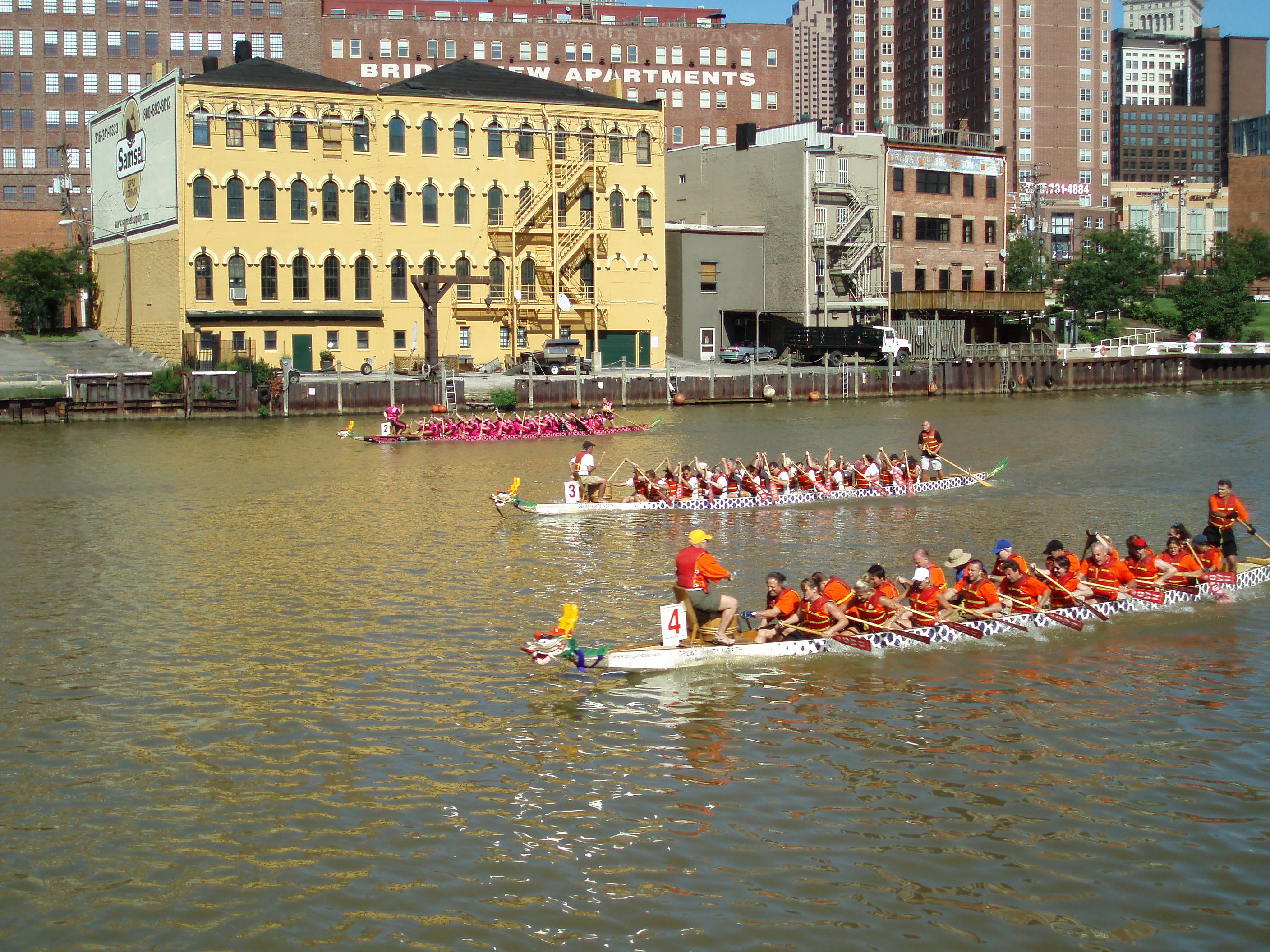 Dragon boats on the Cuyahoga River in Cleveland, Ohio